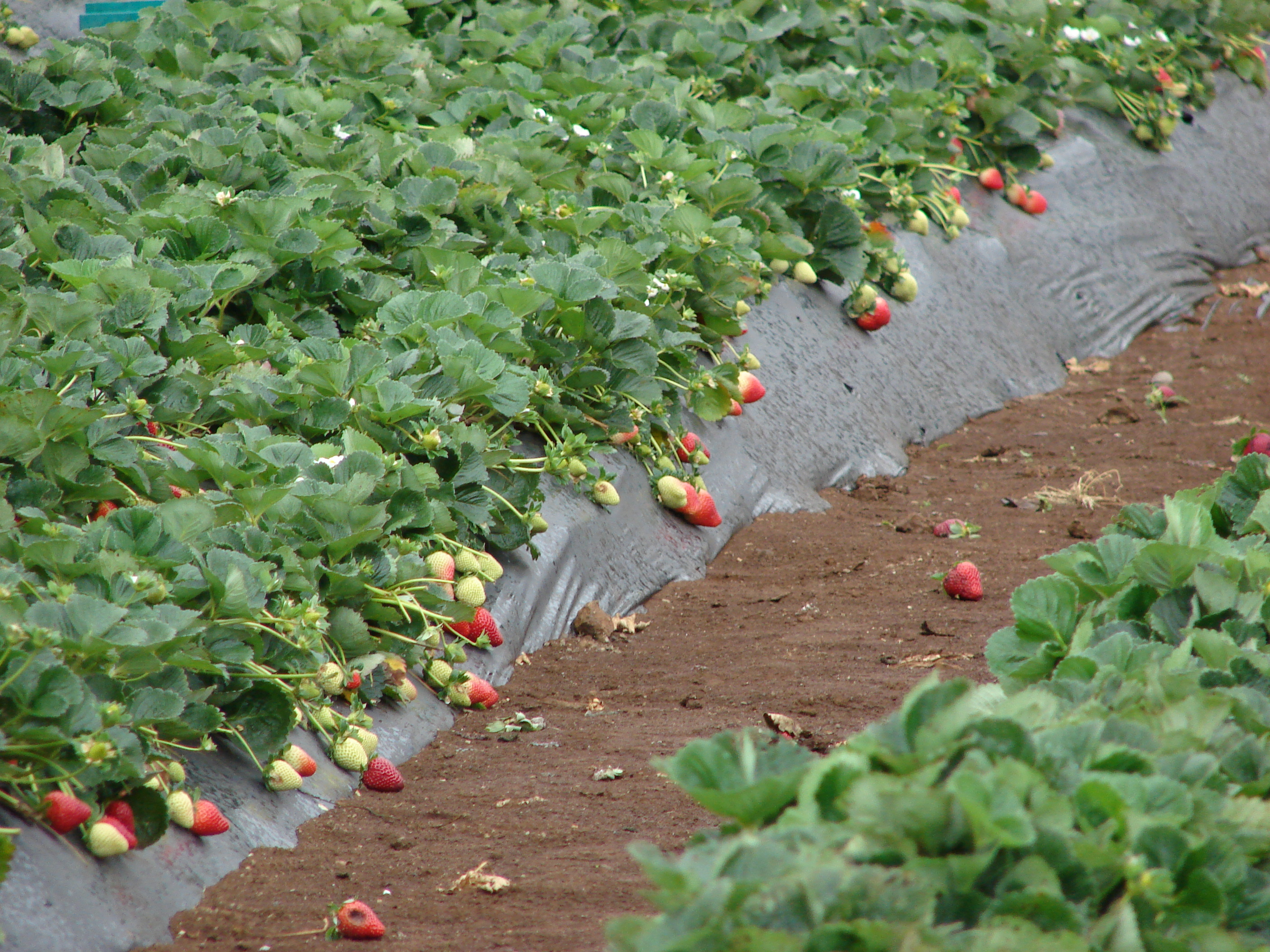 Fragaria x ananassa (fruit). Location: Maui, Pulehu